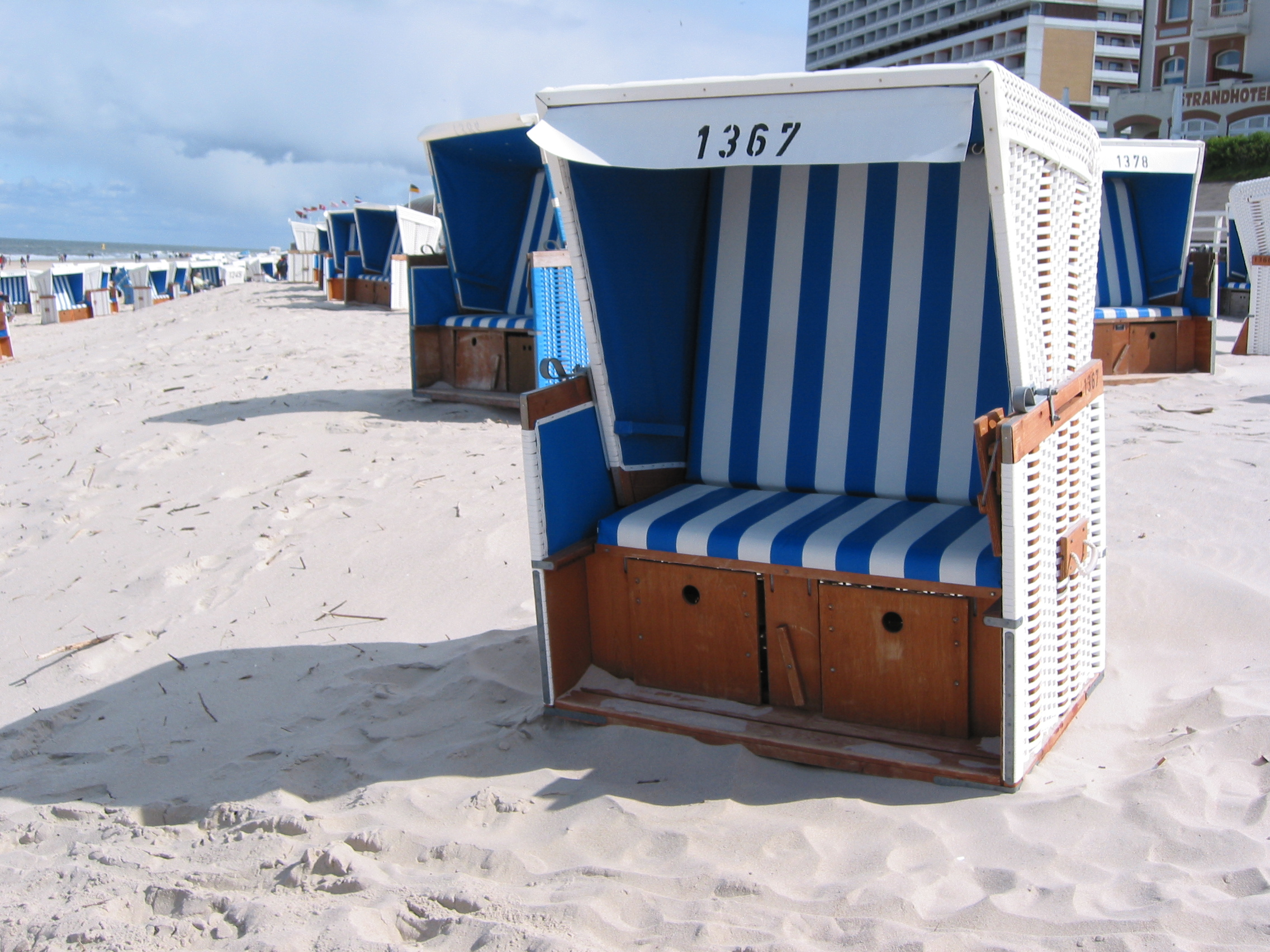 Beach chair at Westerland, Sylt, Germany.